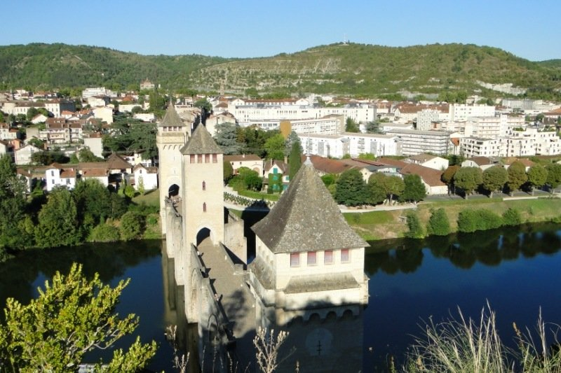 Cahor bridge